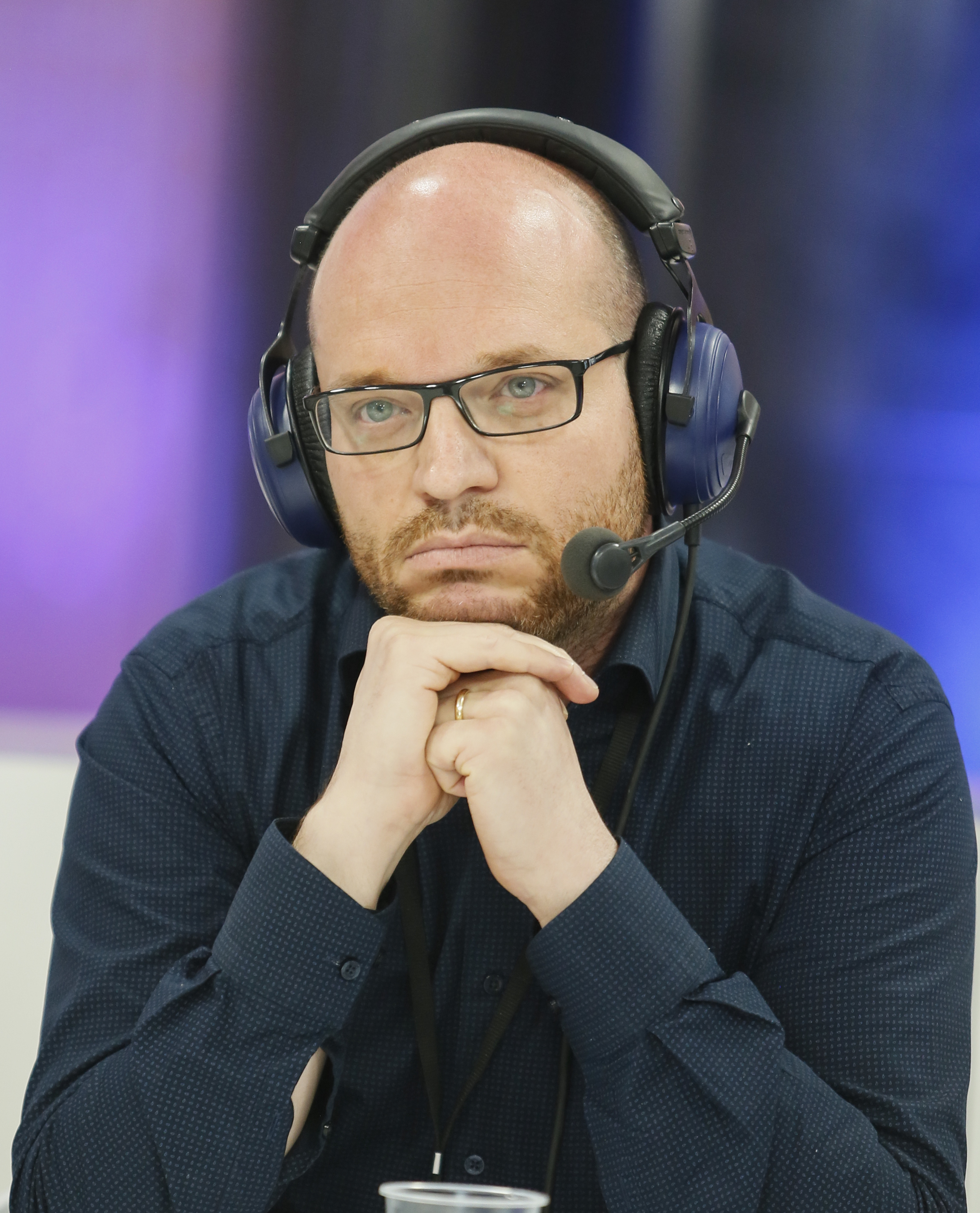 Euranet Plus and Radio 24 Il Sole, the Italian Euranet Plus member, discussed the United Kingdom’s referendum on membership of the European Union. ‘Which way is the wind blowing?’ and ‘Is it too close to call?’ - these questions were discussed in a bilingual debate moderated by Radio 24’s Gigi Donelli (in Italian) and Brian Maguire of the Euranet Plus News Agency in Brussels (in English). Get all the details at Part 1 | Italian | 12:30 - 13:15 CEST | moderator Gigi Donelli | guests: - Mercedes Bresso, MEP, Italy, Group of the Progressive Alliance of Socialists and Democrats in the European Parliament, member of the Committee on Constitutional Affairs - Lorenzo Fontana, MEP, Italy, Europe of Nations and Freedom Group, member of the Committee on Civil Liberties, Justice and Home Affairs - Fabio Massimo Castaldo, MEP, Italy, Europe of Freedom and Direct Democracy Group, member of the Committee on Constitutional Affairs - Salvatore Cicu, MEP, Italy, Group of the European People’s Party (Christian Democrats) - Luca Jahier, president of the Various Interests’ Group at the EESC (European Economic and Social Committee), @ljahier